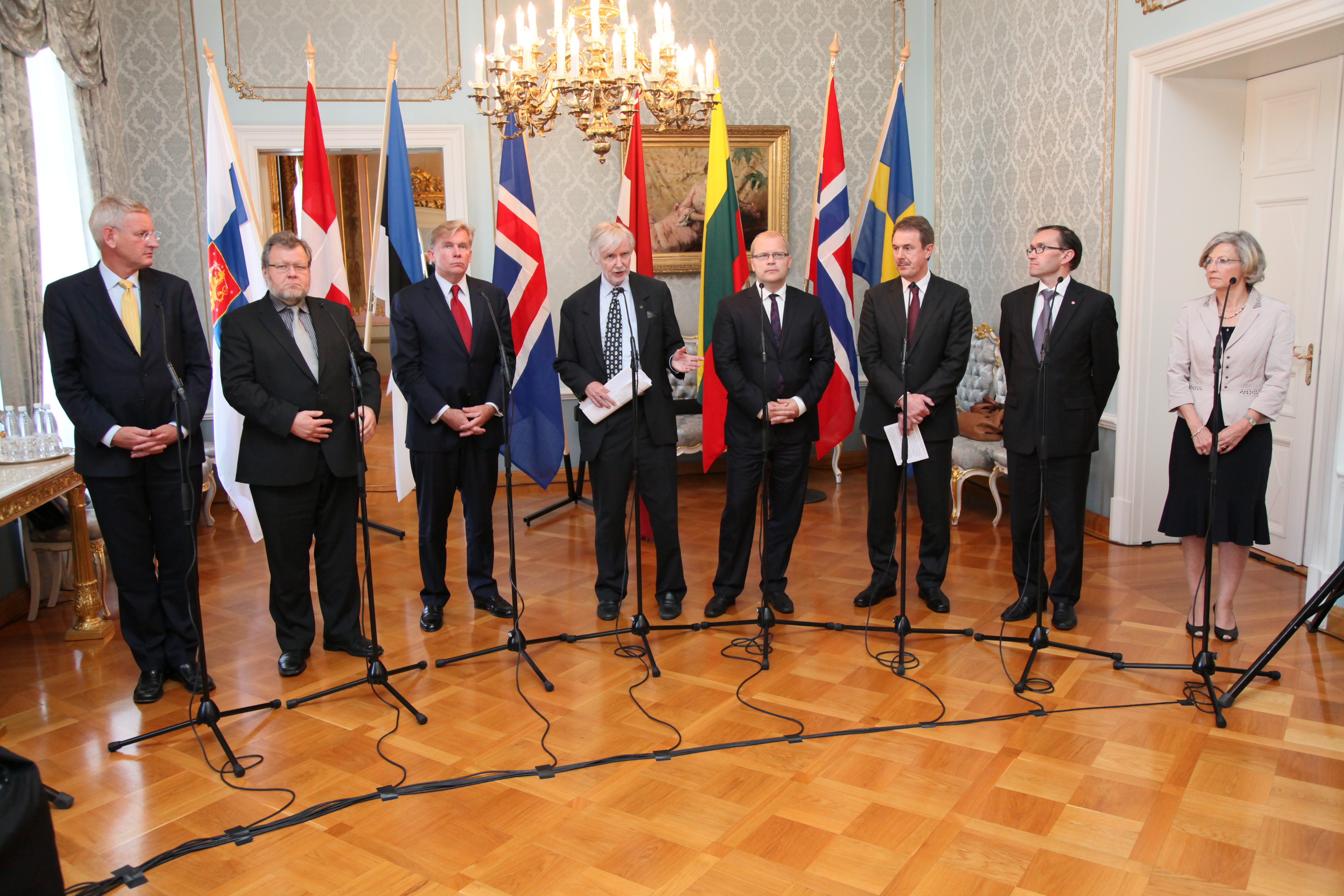 The Nordic and Baltic countries have today signed a memorandum of understanding on the locating of diplomats at each other's missions abroad. The memorandum will make it easier for the Nordic and Baltic countries to maintain a diplomatic presence around the world by enabling flexible and cost-effective solutions. This reinforced diplomatic cooperation coincides with the twentieth anniversary of Estonia, Latvia and Lithuania regaining their freedom and re-establishing diplomatic relations with other countries. „This memorandum of understanding signed by our eight countries is concrete evidence of our solidarity and our strengthened diplomatic cooperation“ say the foreign ministers of the Nordic and Baltic countries in a joint statement. (The image does not show all of the foreign ministers: the Danish foreign minister Lene Espersen and the Norwegian foreign minister Jonas Gahr Støre are not on the image. From left to right: The Swedish foreign minister Carl Bildt, the Icelandic foreign minister Össur Skarphéðinsson, the Lithuanian foreign minister Audronius Ažubalis, the Finnish foreign minister Erkki Tuomioja, the Estonian foreign minister Urmas Paet, the Latvian foreign minister Ģirts Valdis Kristovskis, followed by two unknown persons, probably representatives from Denmark and Norway.) The memorandum regulates the diplomatic and practical aspects of posting diplomats to the mission abroad of another Nordic or Baltic country. The Nordic and Baltic countries comprise Denmark, Estonia, Finland, Iceland, Latvia, Lithuania, Norway and Sweden.